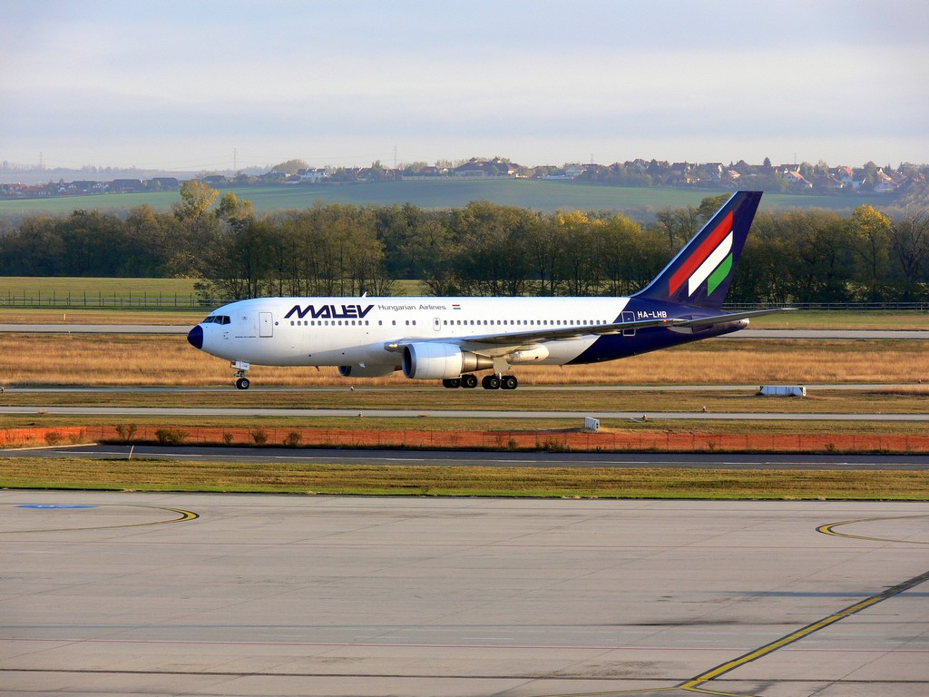 Boeing 767-200ER Malév Hungarian Airlines Registration code: HA-LHB